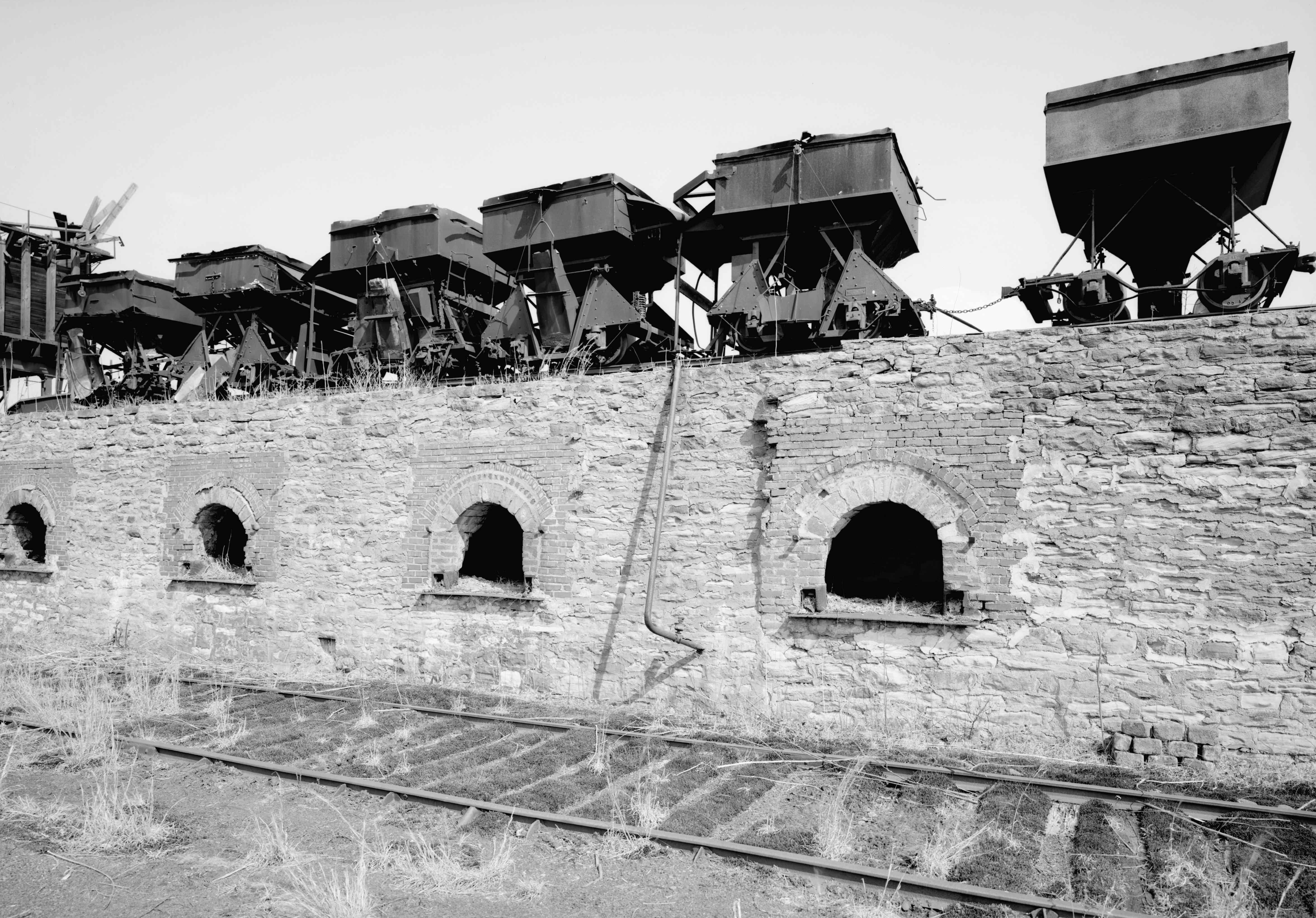 Coke ovens in Shoaf, an unincorporated community in Georges Township, Fayette County, Pennsylvania, United States. The coke ovens are part of the Shoaf Historic District, a historic district that is listed on the National Register of Historic Places.